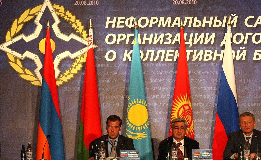 At an Informal meeting of heads of the Collective Security Treaty Organisation member states. With President of Armenia Serzh Sargsyan and CSTO Secretary General Nikolai Bordyuzha (right).